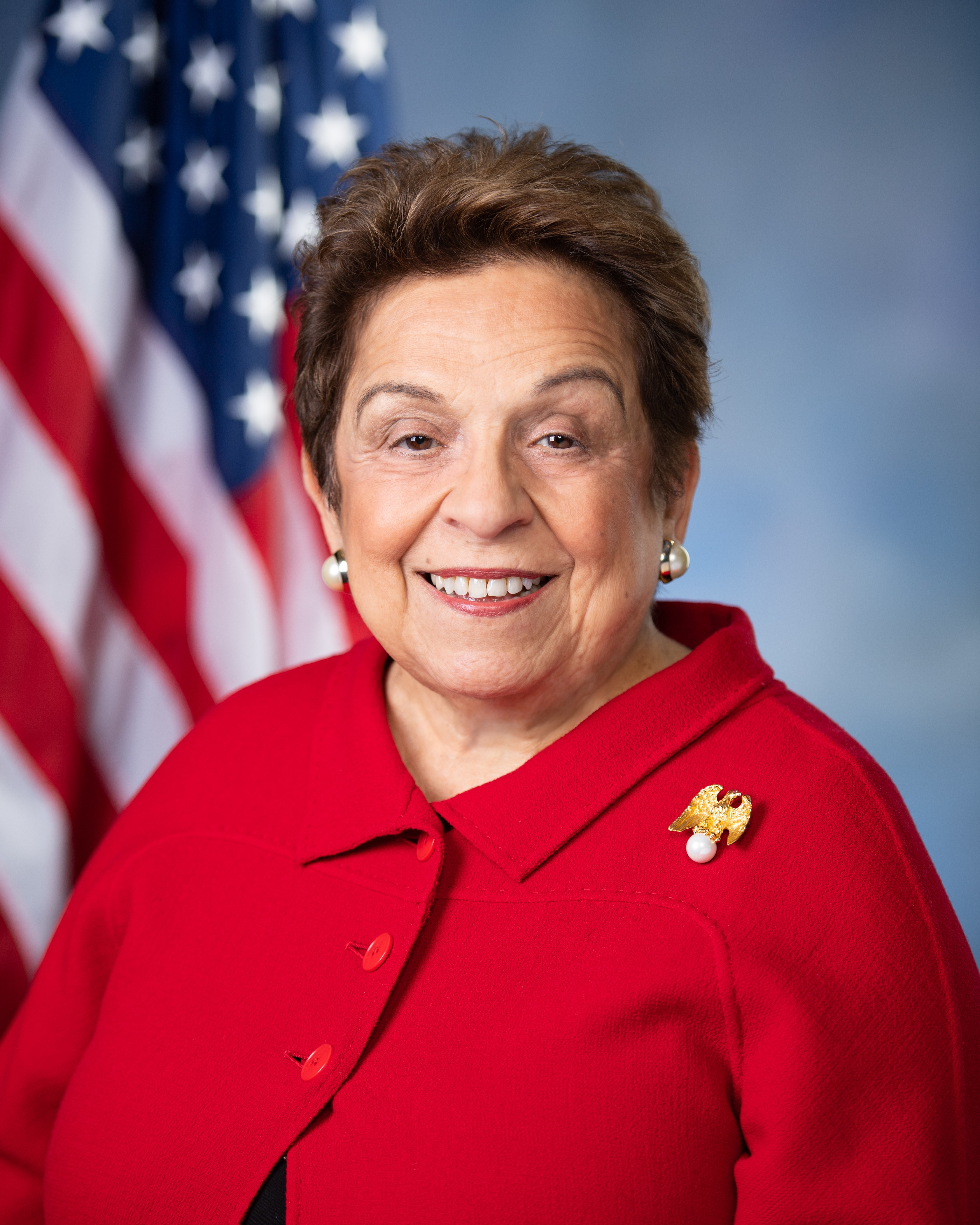 The official headshot of Rep. Donna Shalala (D-FL)